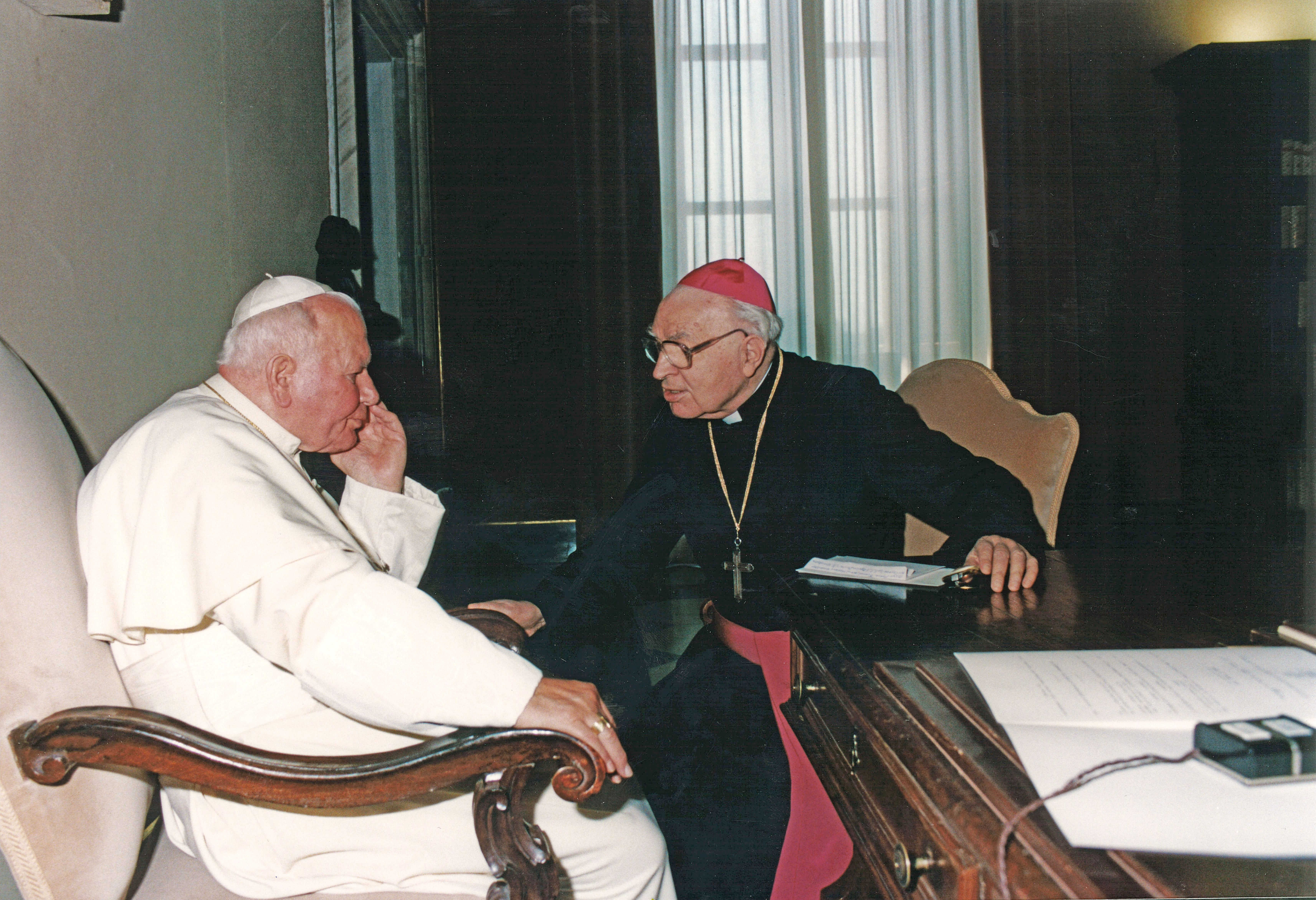 Frane Franić with Pope John Paul II in Holy Year 2000